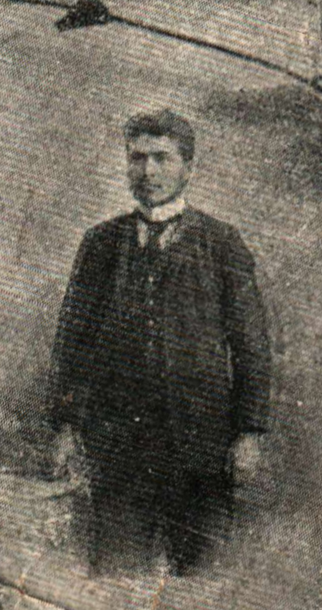 Timo Angelov, IMARO